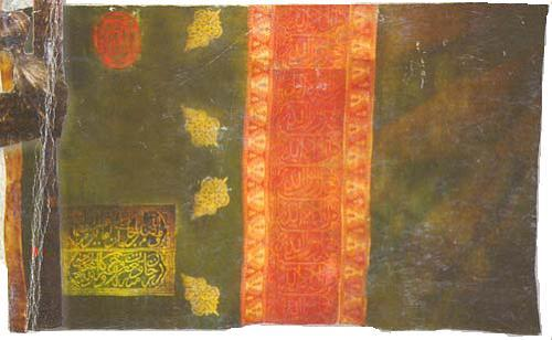 Flag of Ganja Khanate captured by Russian general Sisianov in 1804